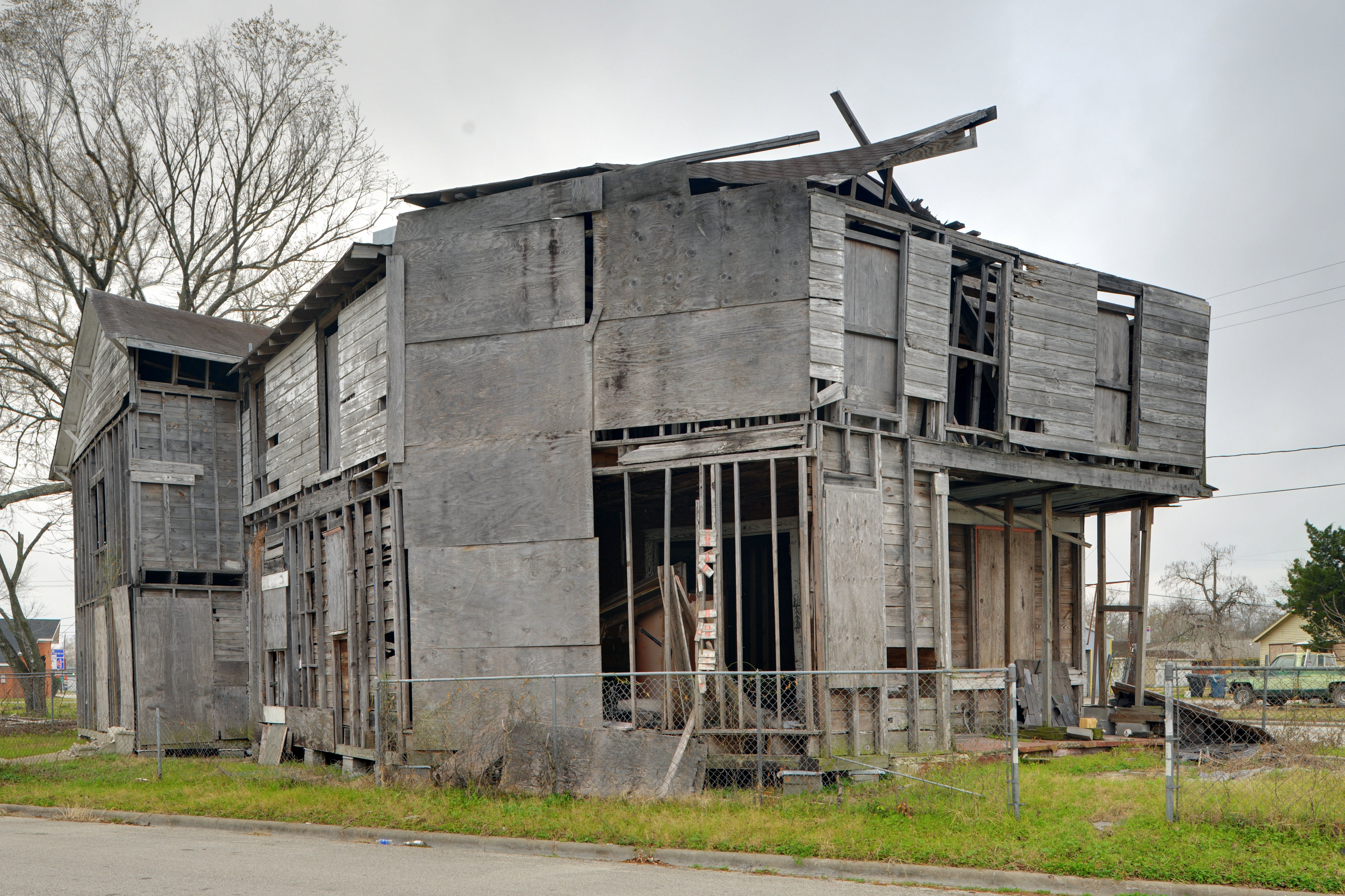 The General Mercantile Store at 7332 N. Main St., Houston (Texas, USA) is listed in the National Register of Historic Places, United States Department of the Interior.